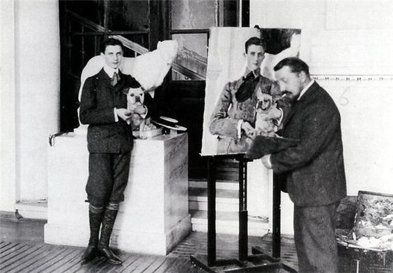 Valentin Serov painting Count Felix Sumarokov-Elston